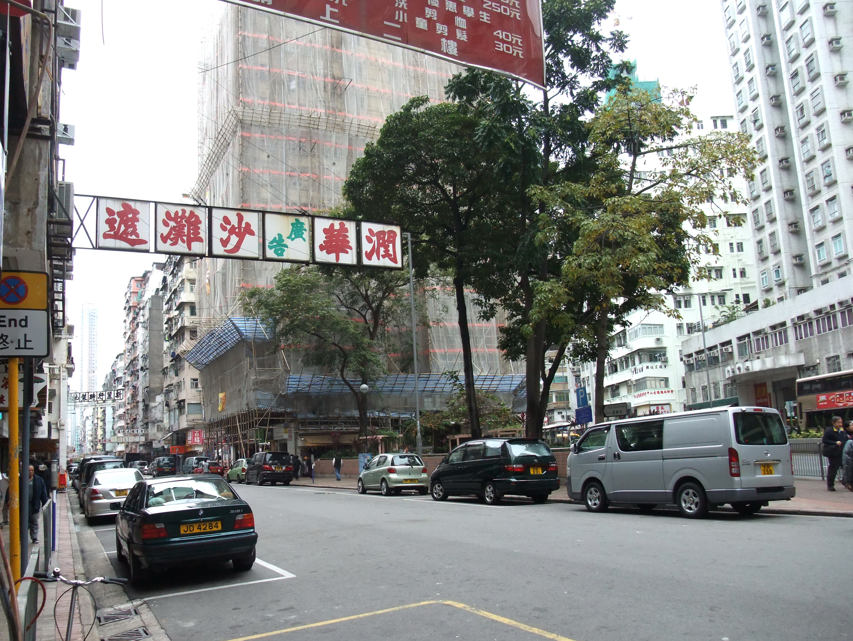 South end of Fuk Wa Street, connecting to Tai Po Road, Kowloon, Hong Kong.